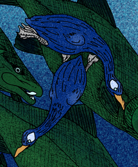 Cropped image of taxon in file name